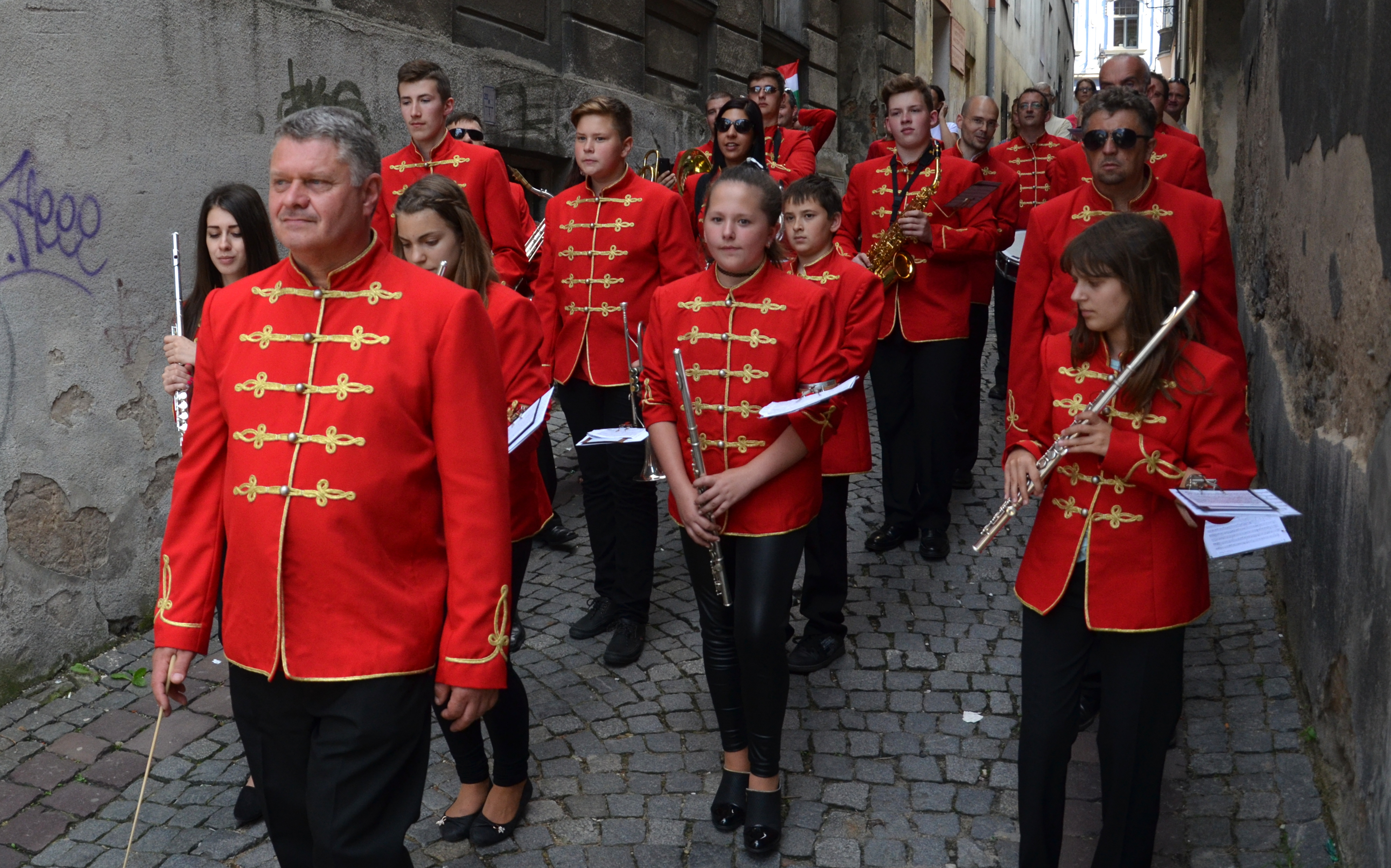 Lakitelek Fire Orchestra, Ungarn, Bielsko-Biała, Bielitz